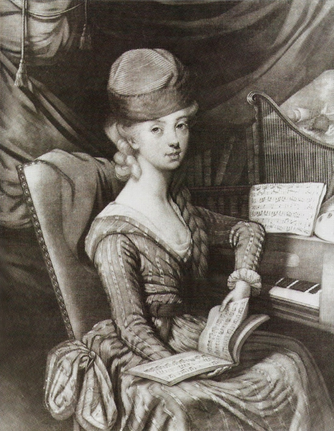 Polish Duchess Izabela Czartoryska